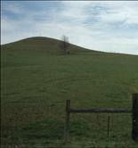 The battlefield of the Battle of Marion.